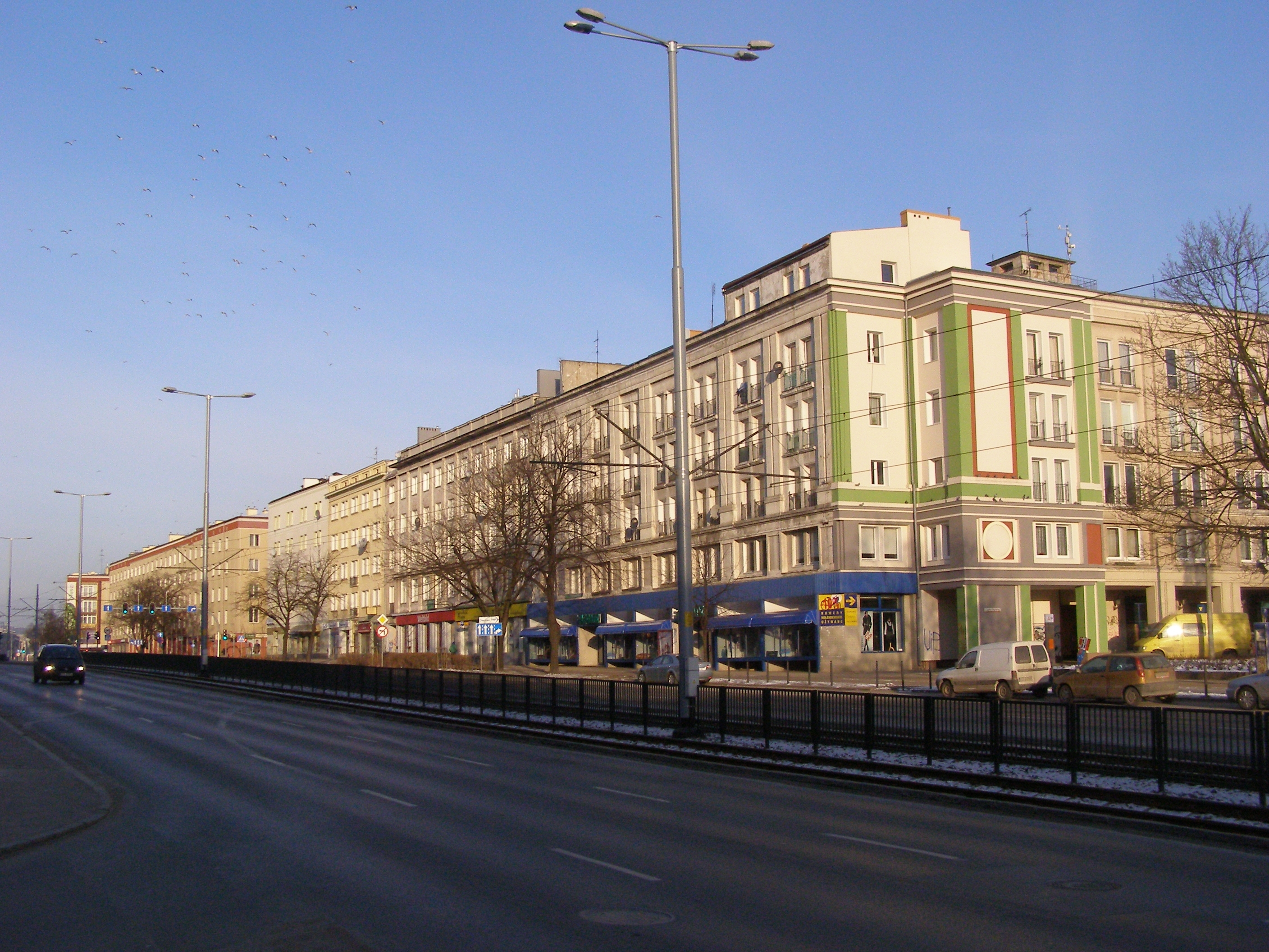 Gdańsk - Grunwaldzka av. in Wrzeszcz quarter